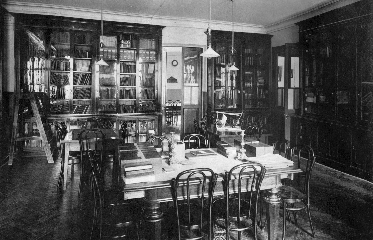 Library in Saint-Petersburg Karl May school.